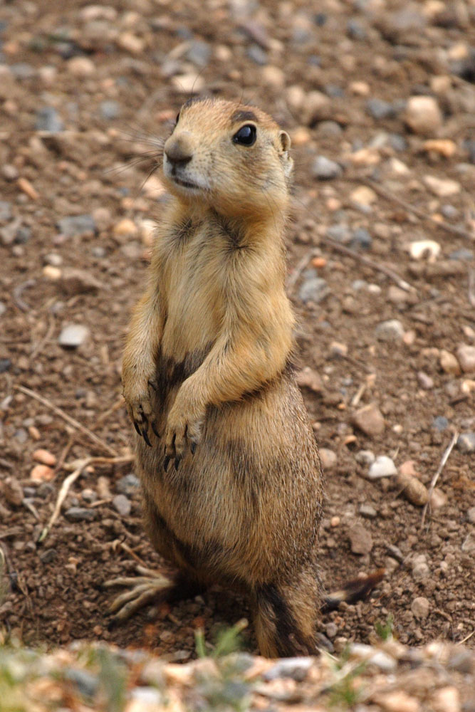 Utah Prairie Dog (Cynomys parvidens) - Bryce Canyon National Park